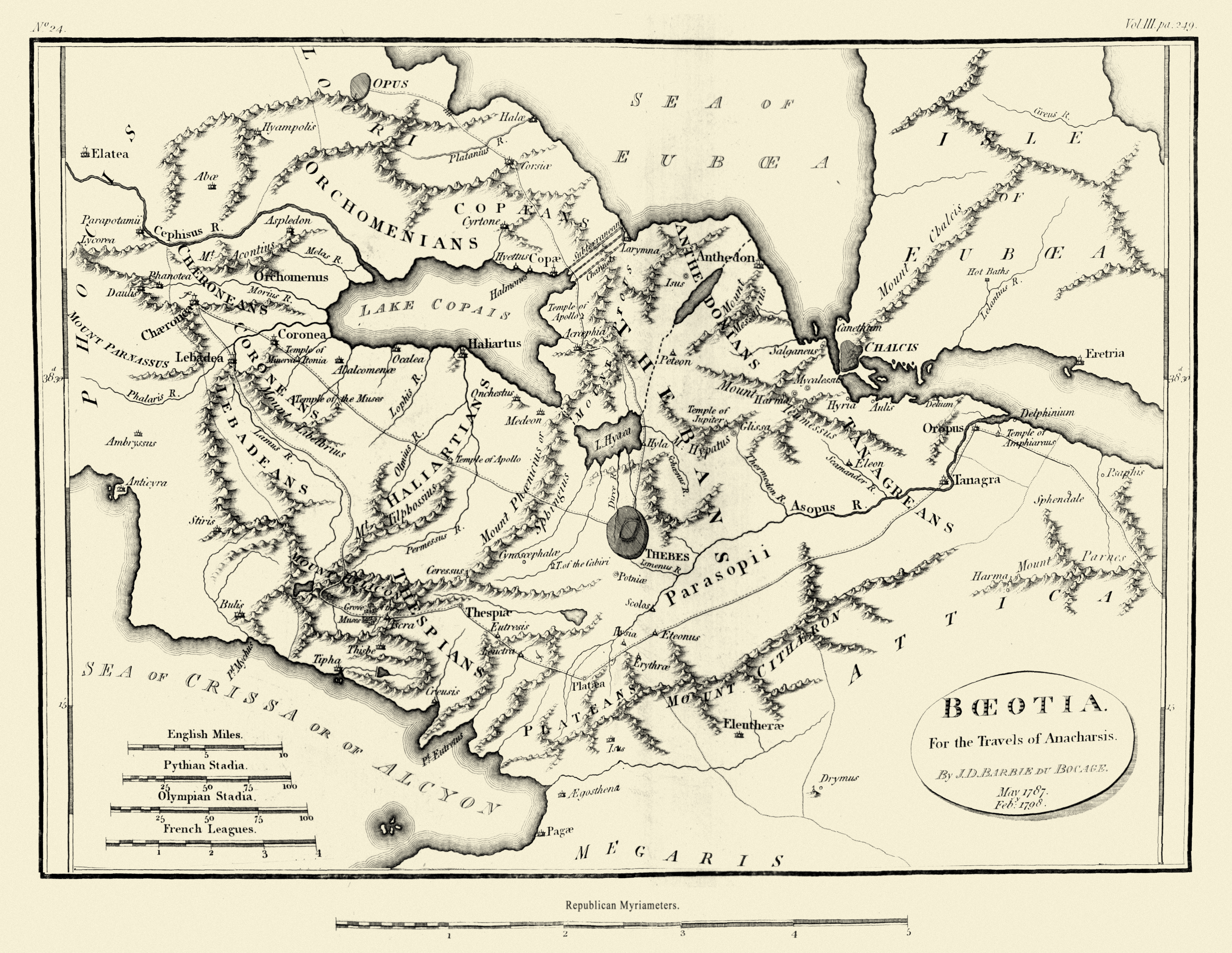 Map of Ancient Boeotia